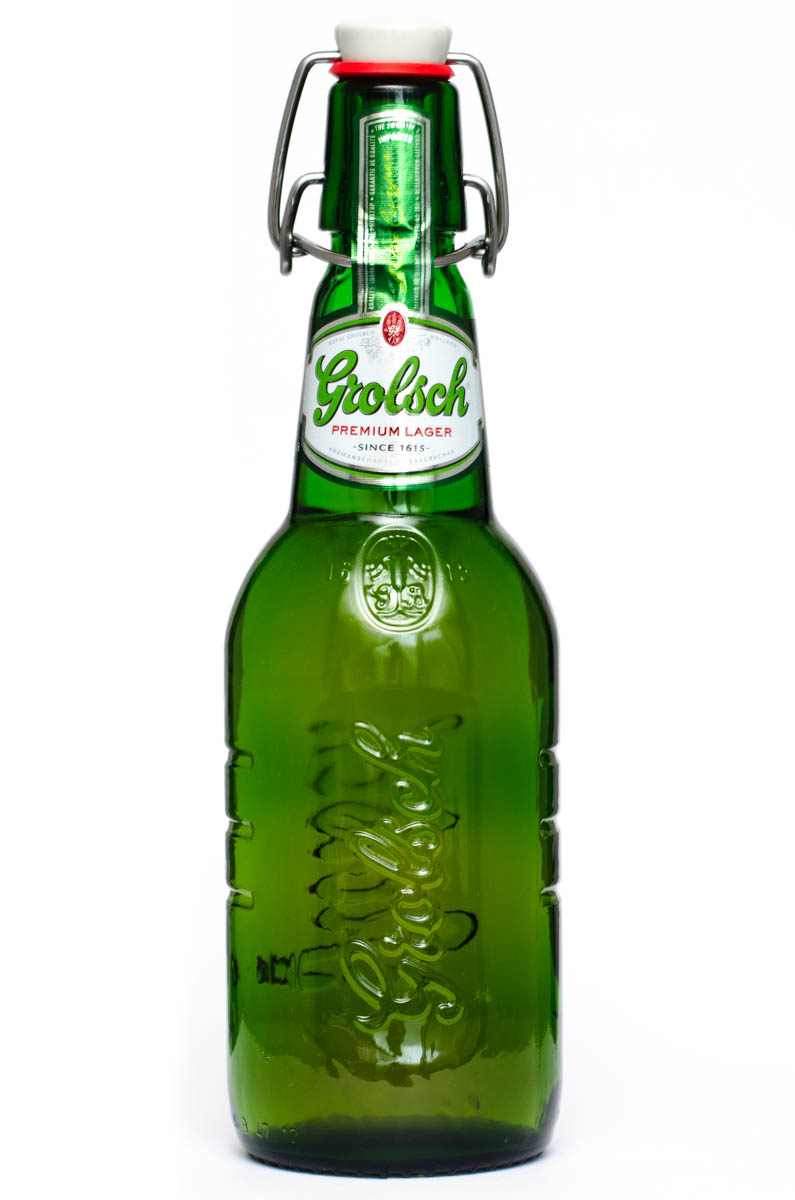 Grolsch premium lager bottle unopened Green glass swing top beer bottle